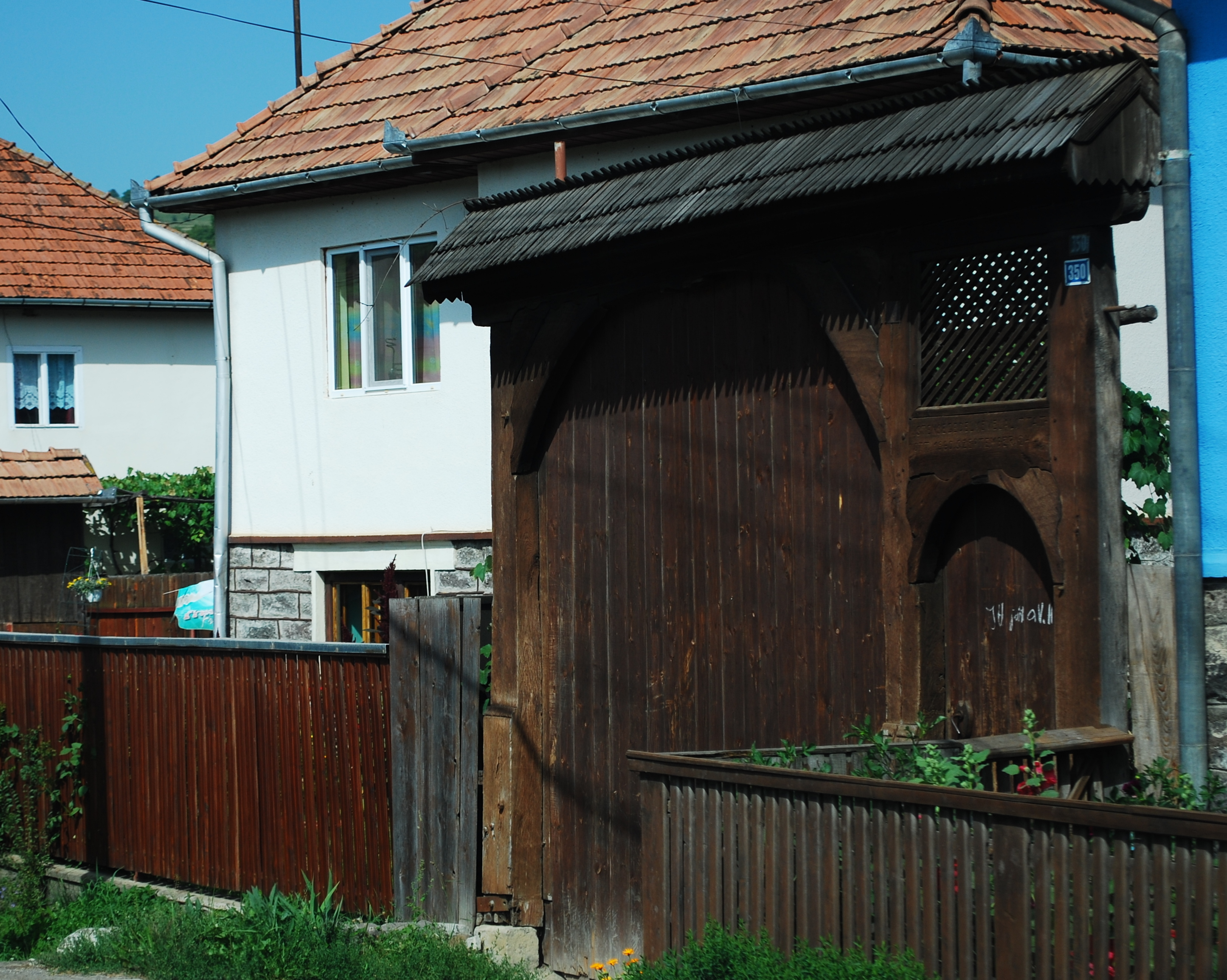 Szekler gate in the Satu Mare village, Harghita County, Romania